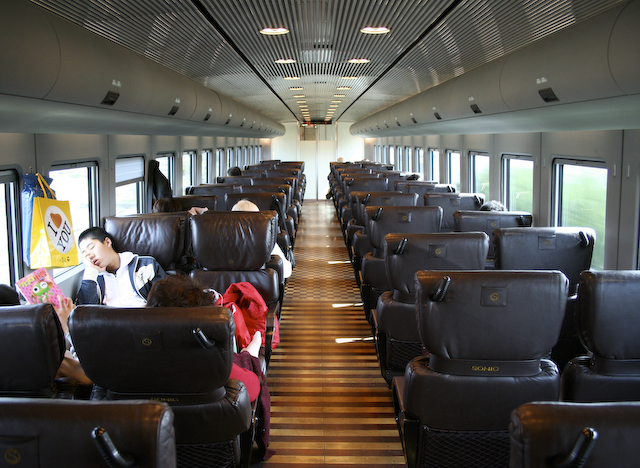 Photograph of the interior of an 885 Series Kamome limited express train.